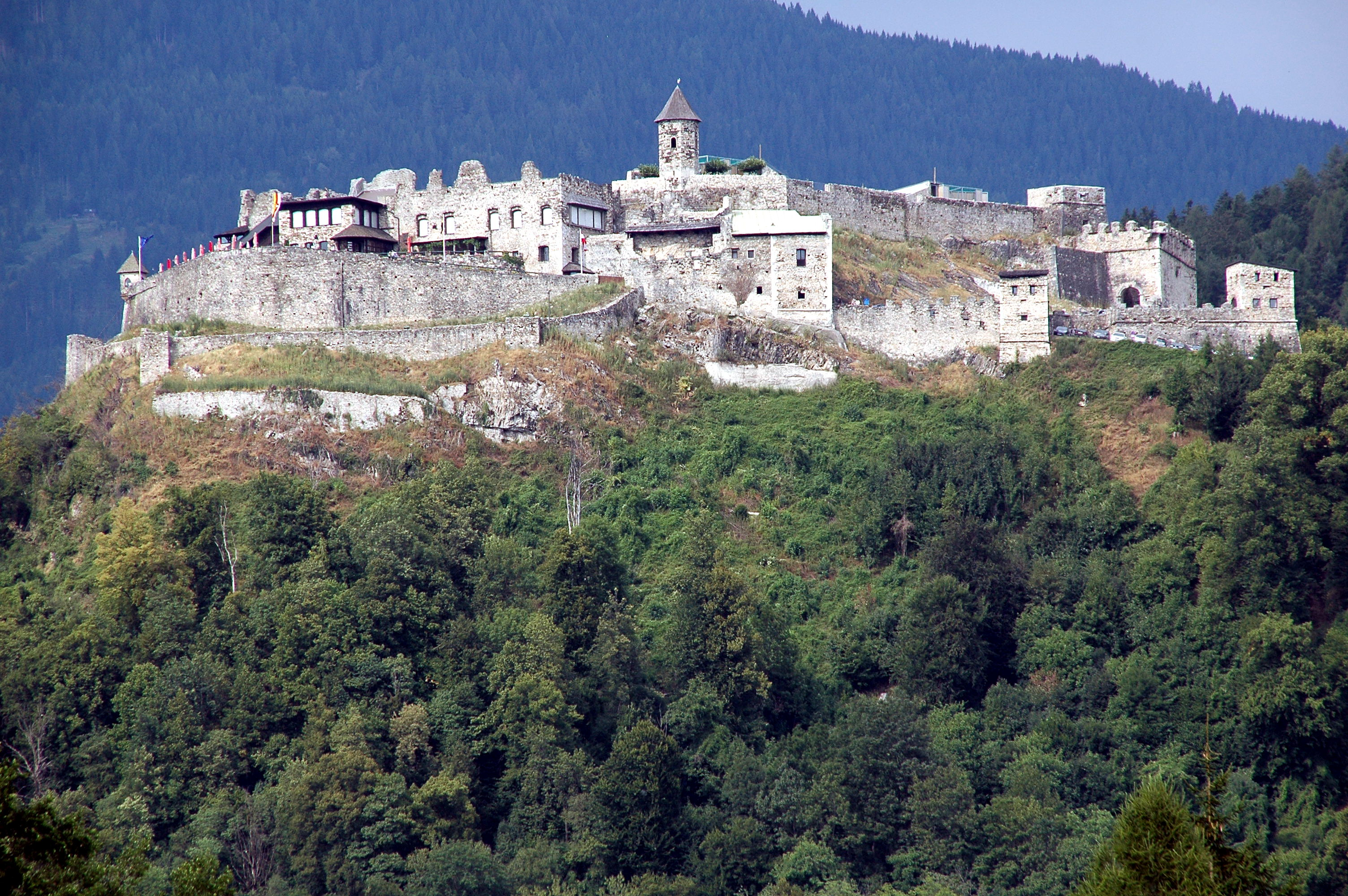 Castle ruin on Schlossbergweg #30 in Landskron, municipality Villach, Carinthia, Austria, EU